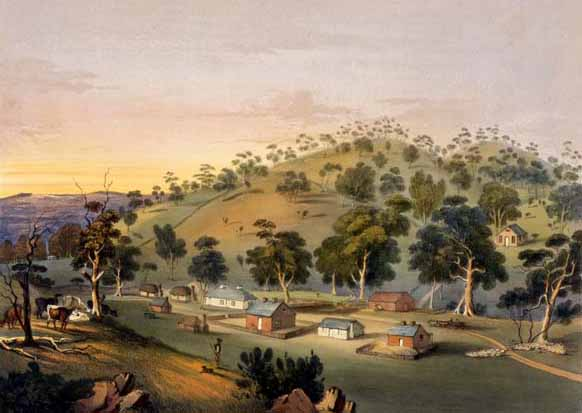 From